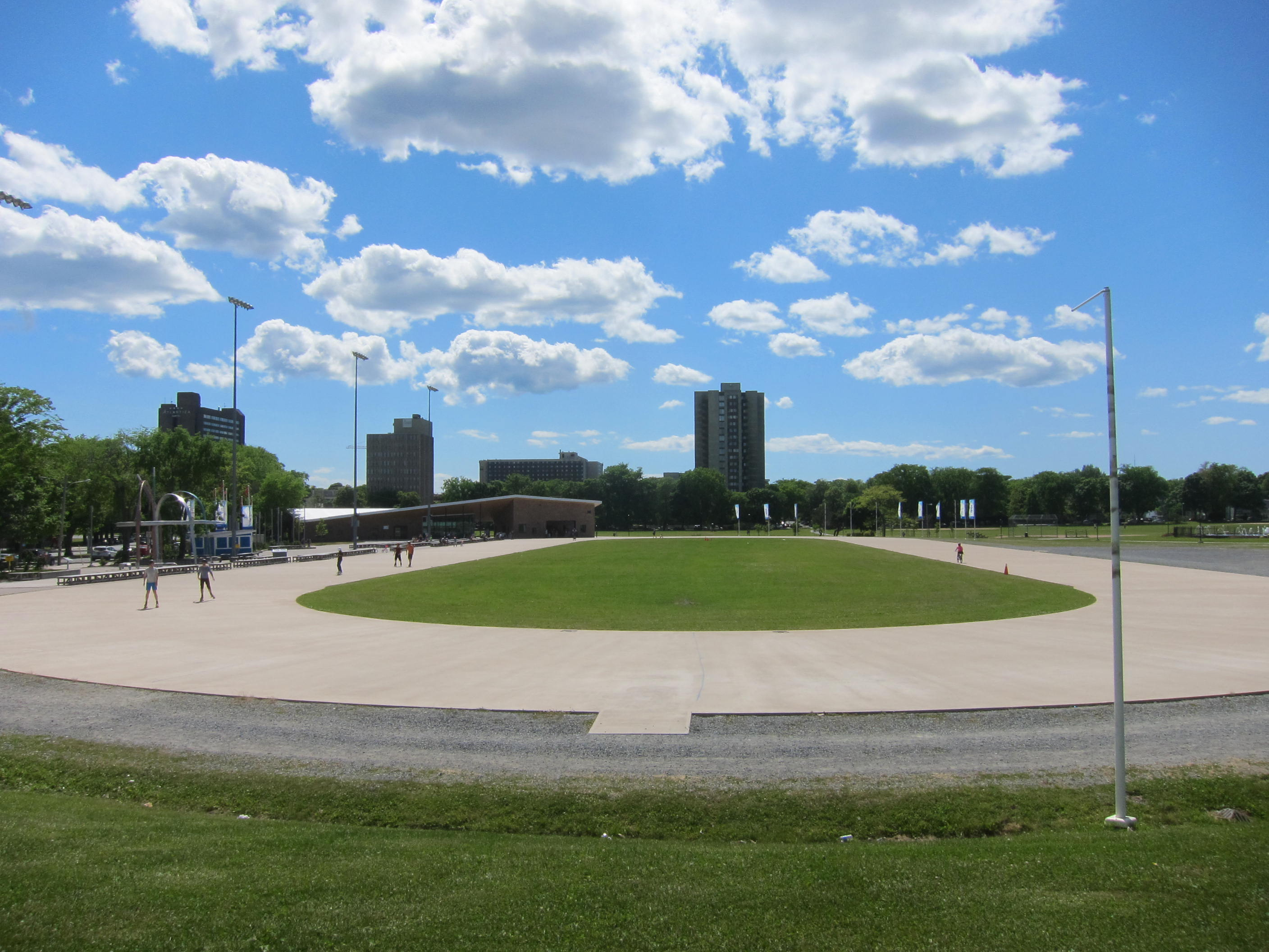 The Emera Oval, formerly the Canada Games Oval, at the Halifax Common.